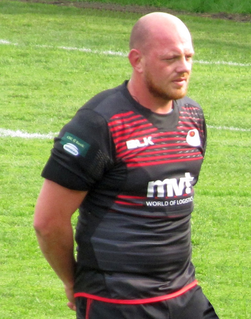 Romanian rugby union football player Dorin Lazăr during the 2019 Cupa României Final match between his team, Timișoara Saracens, and rivals CSM București in March 2019